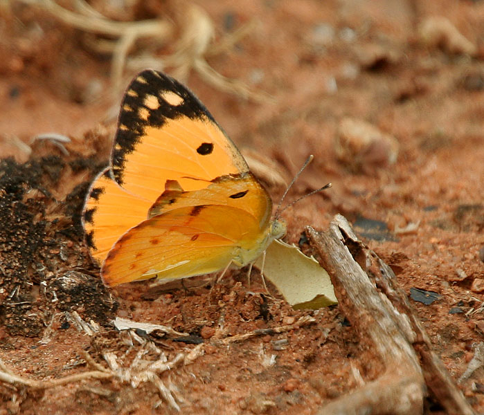 Large Salmon Arab Colotis fausta in Hyderabad , India.